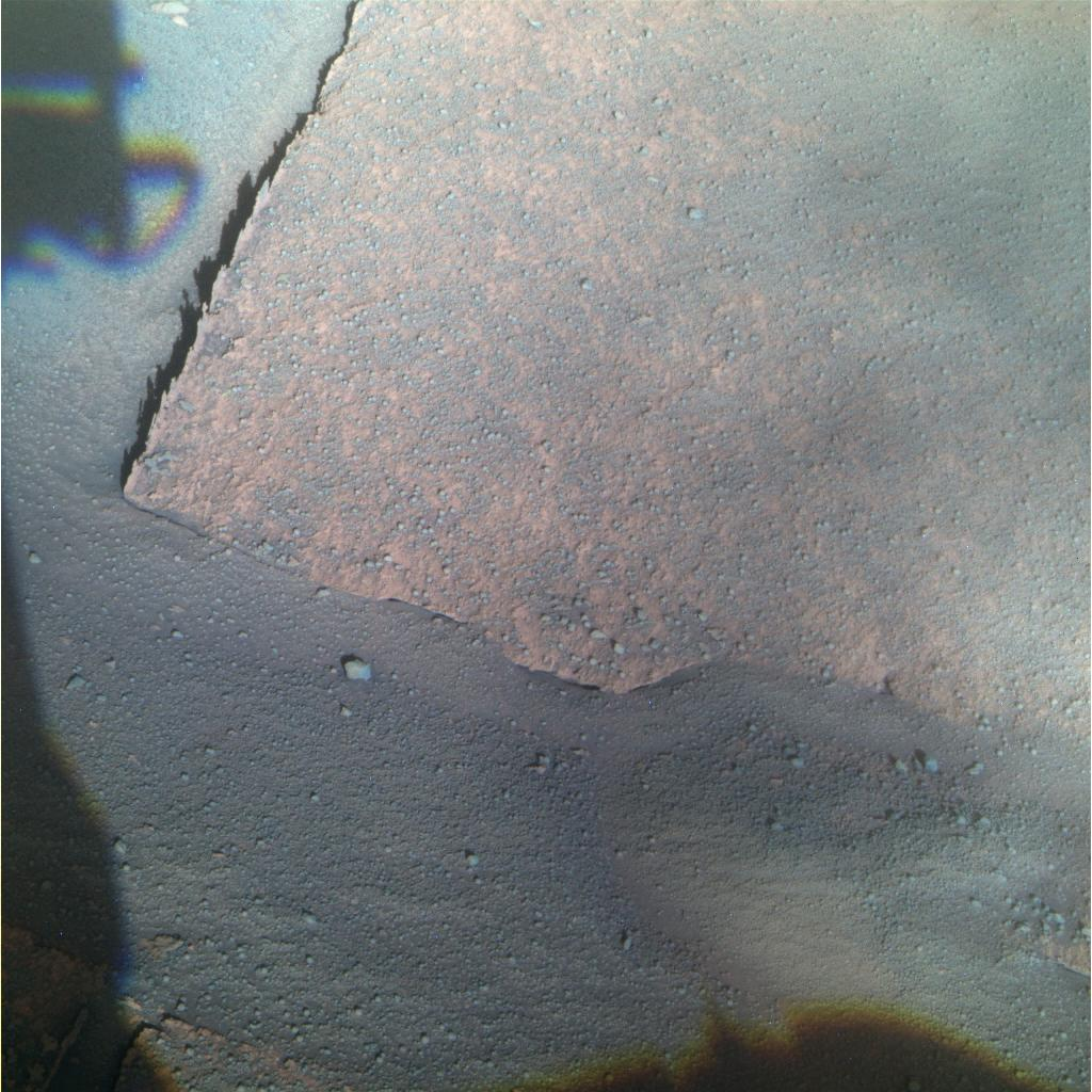 This view from NASA's Mars Exploration Rover Opportunity shows bedock within a stratigraphic layer informally named "Gilbert," which is the rover's next target after completing an examination of three stratigtaphic layers forming a bright band around the inside of Victoria Crater. The rover will descend deeper into the crater to reach the Gilbert layer. Opportunity used its panoramic camera (Pancam) to capture this image with low-sun angle at a local solar time of 3:30 p.m. during the rover's 1,429th Martian day, of sol (Jan. 31, 2008). This view combines separate images taken through the Pancam filters centered on wavelengths of 753 nanometers, 535 nanometers and 432 nanometers. It is presented in a false-color stretch to bring out subtle color differences in the scene.